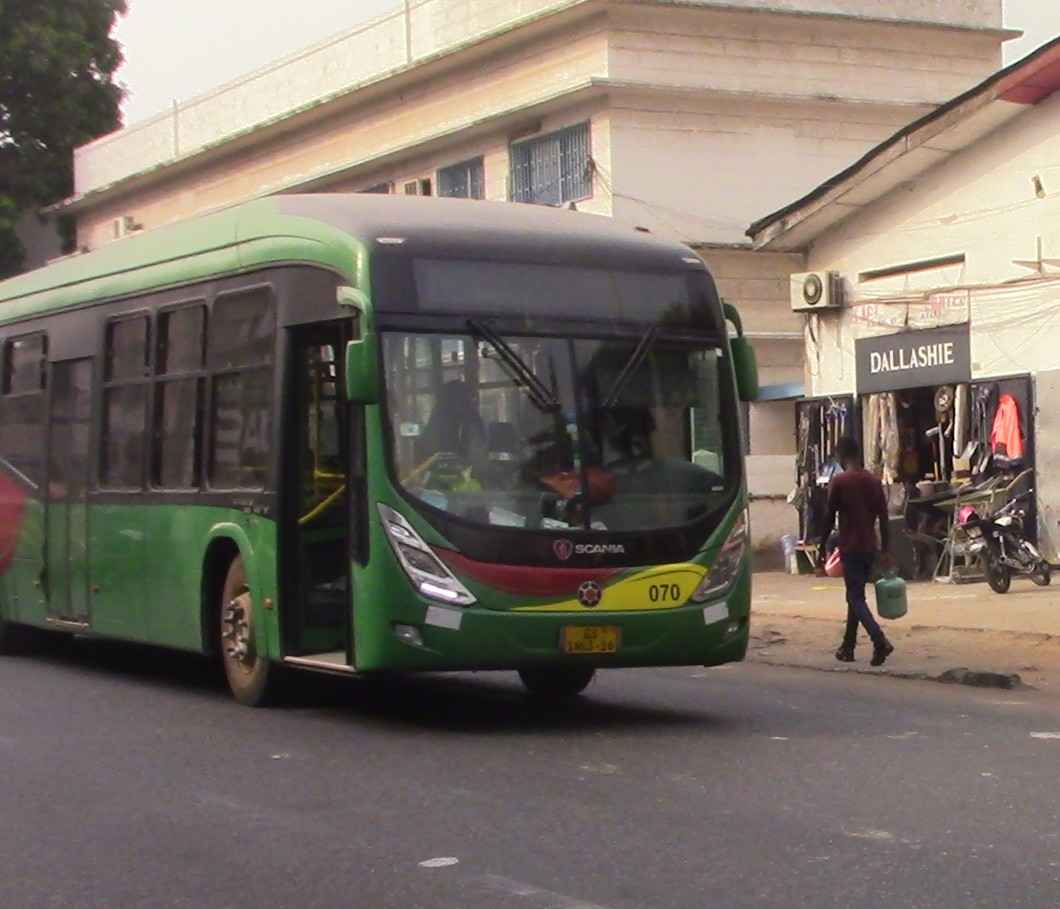 Bus system in Accra called Ayalolo This is an image with the theme "Africa on the Move or Transport" from: Ghana